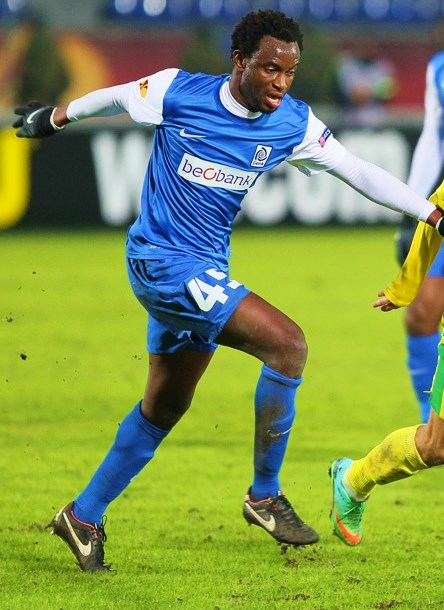 Kumordzi in 2013.